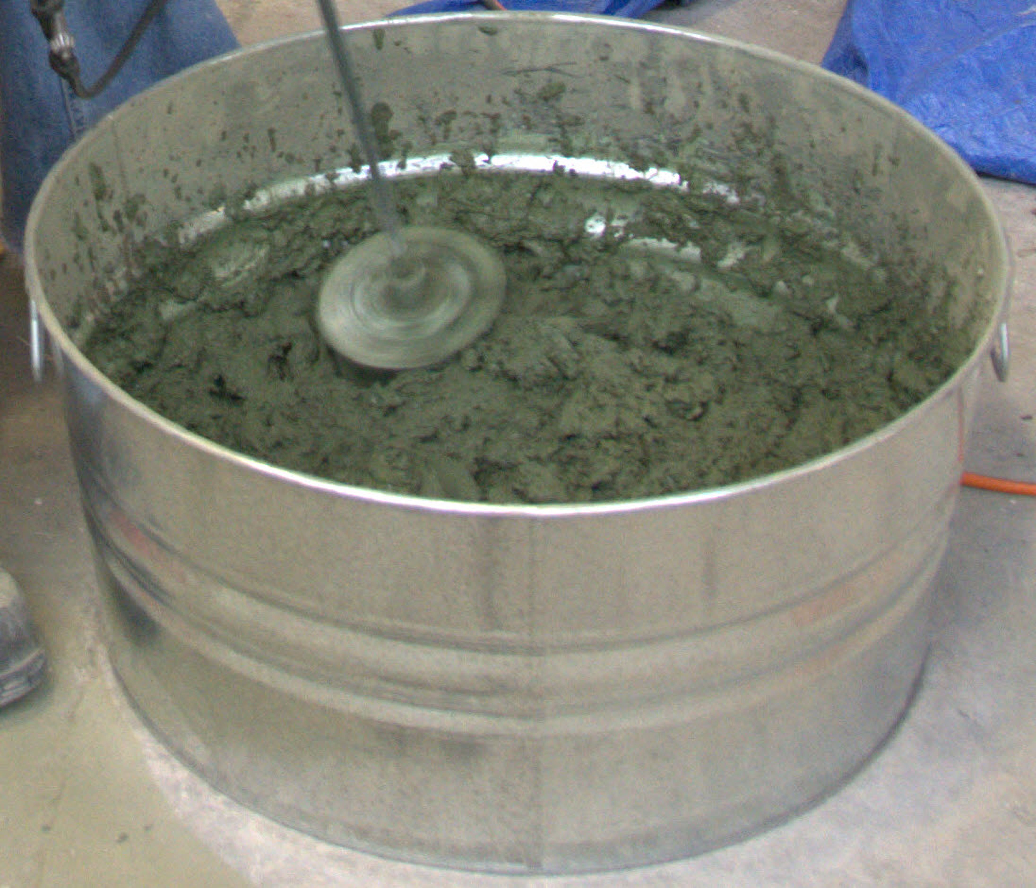 Mixing DuraS.T.O.P. firestop mortar, using a professional grout paddle.